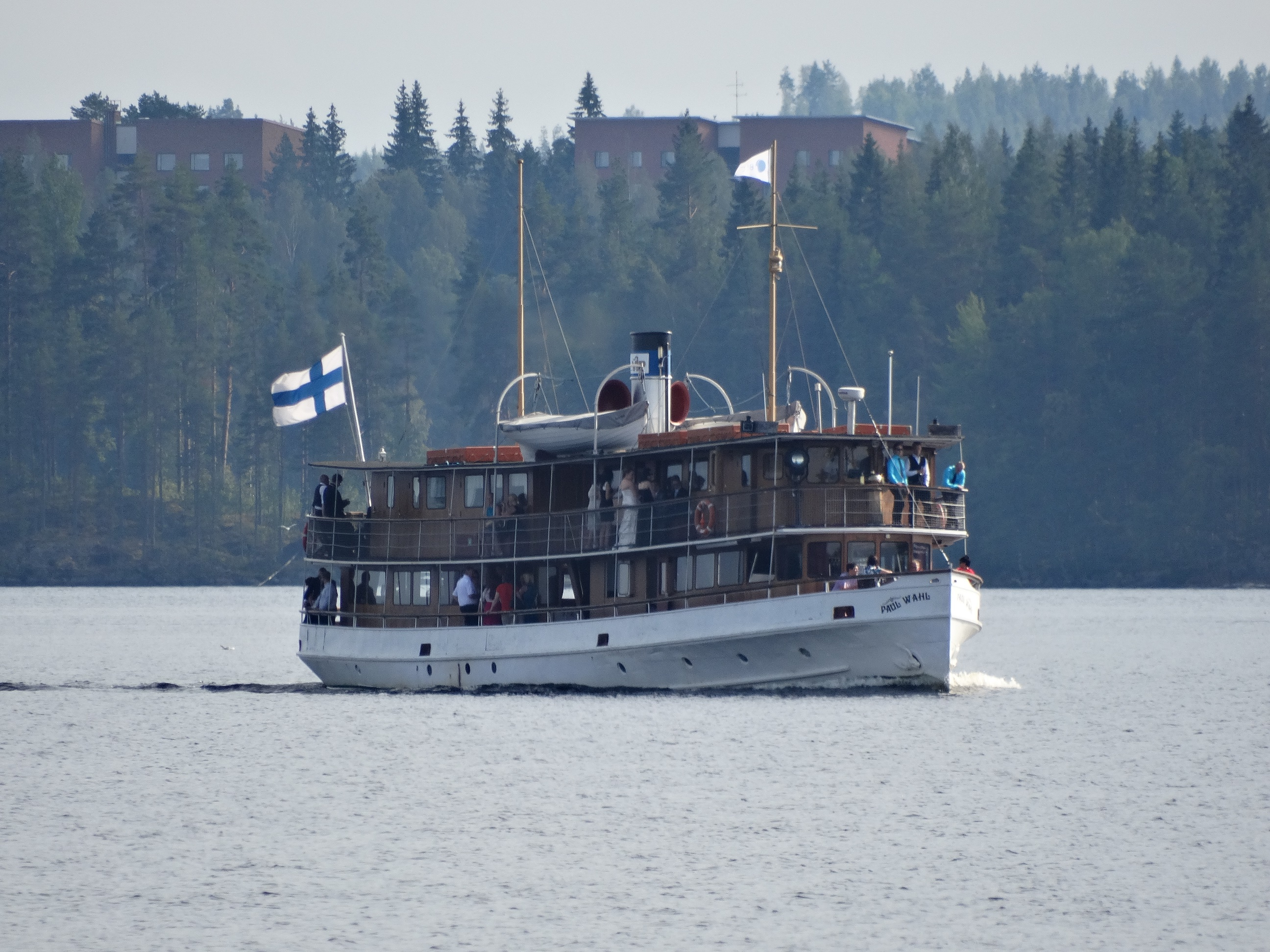 S/S Paul Wahl (Haapavesi)